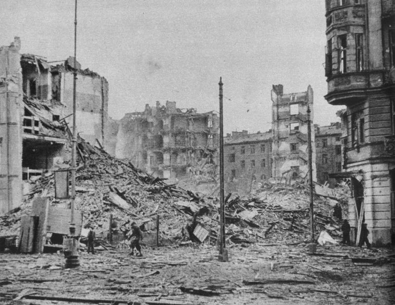 Warsaw Uprising: Ruins of school buildings and latter used by Wehrmacht at Chłodna 11/13 / Waliców 34 street, destroyed by Germans on August 2.